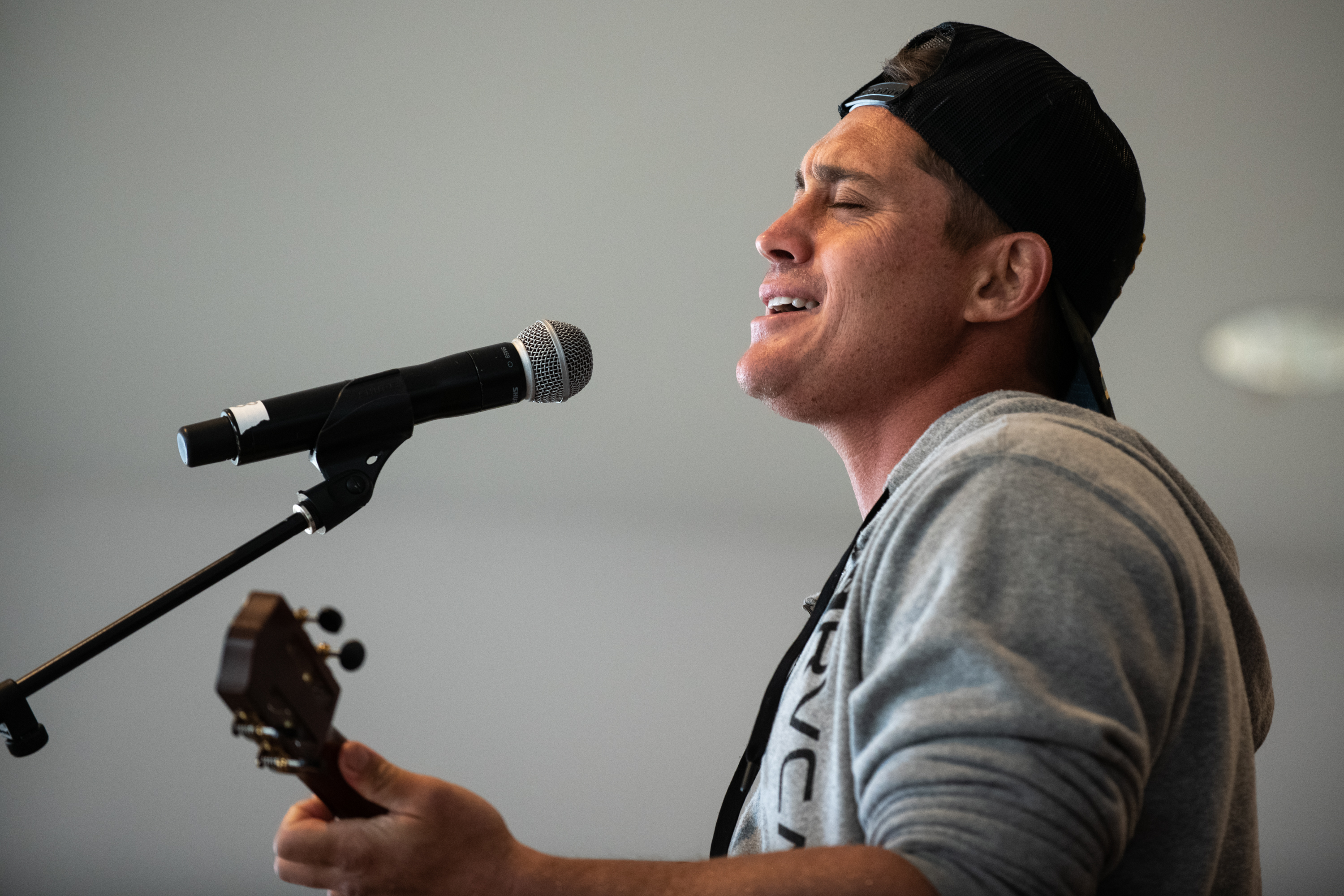 Professional surfer Makua Rothman sings while playing the ukulele during a USO show at Ramstein Air Base, Germany; the first stop on the annual Vice Chairman’s USO Tour, March 30, 2019. Country music artist Craig Morgan, UFC Hall of Famer BJ Penn, former UFC Middleweight champion Chris Weidman, celebrity chef Robert Irvine, professional mixed martal artist Felice Herrig, and two-time MLB World Series champion Shane Victorino, will join Air Force Gen. Paul J. Selva, vice chairman of the Joint Chiefs of Staff, on a tour across the world as they visit service members overseas to thank them for their service and sacrifice. (DoD Photo by U.S. Army Sgt. James K. McCann)